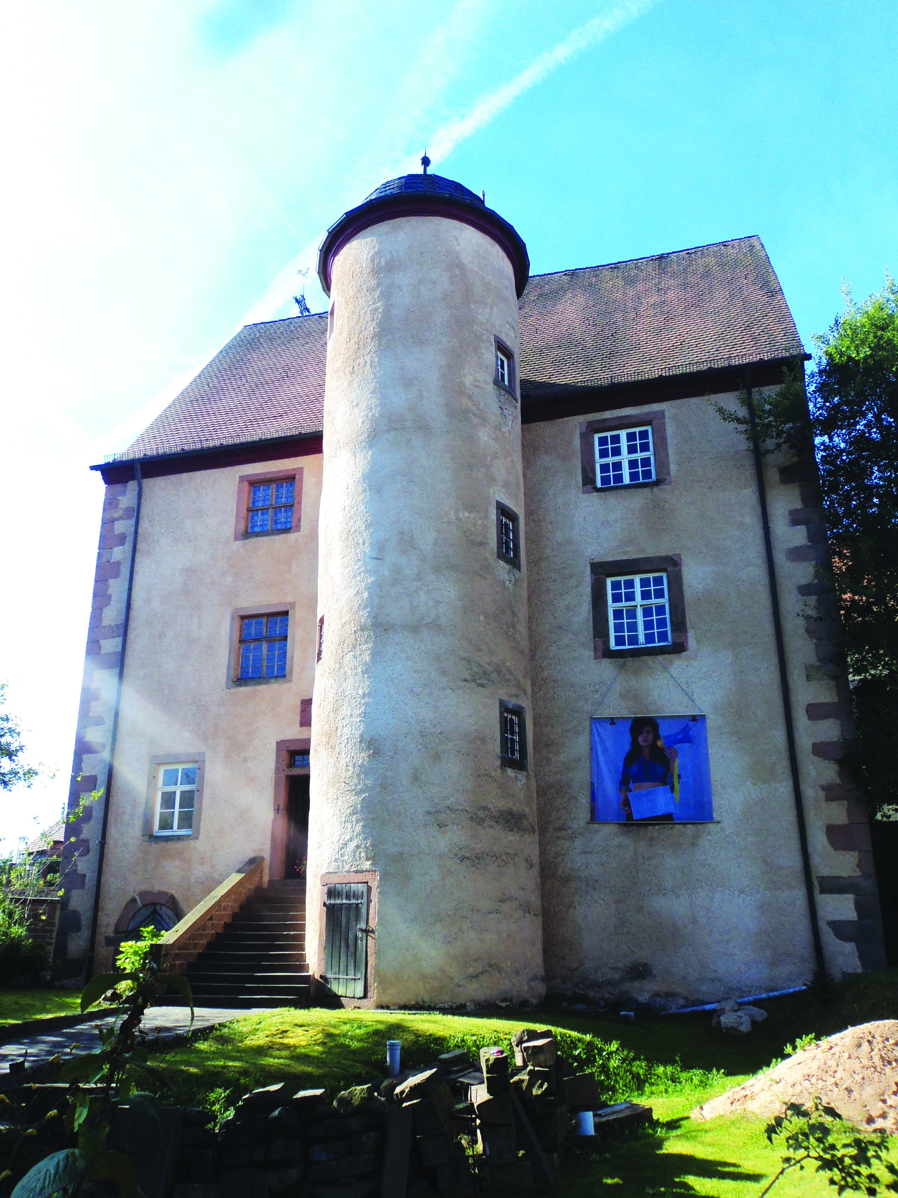 Kunstverein Wiesen at Schloss Wiesen in Gemeinde Wiesen